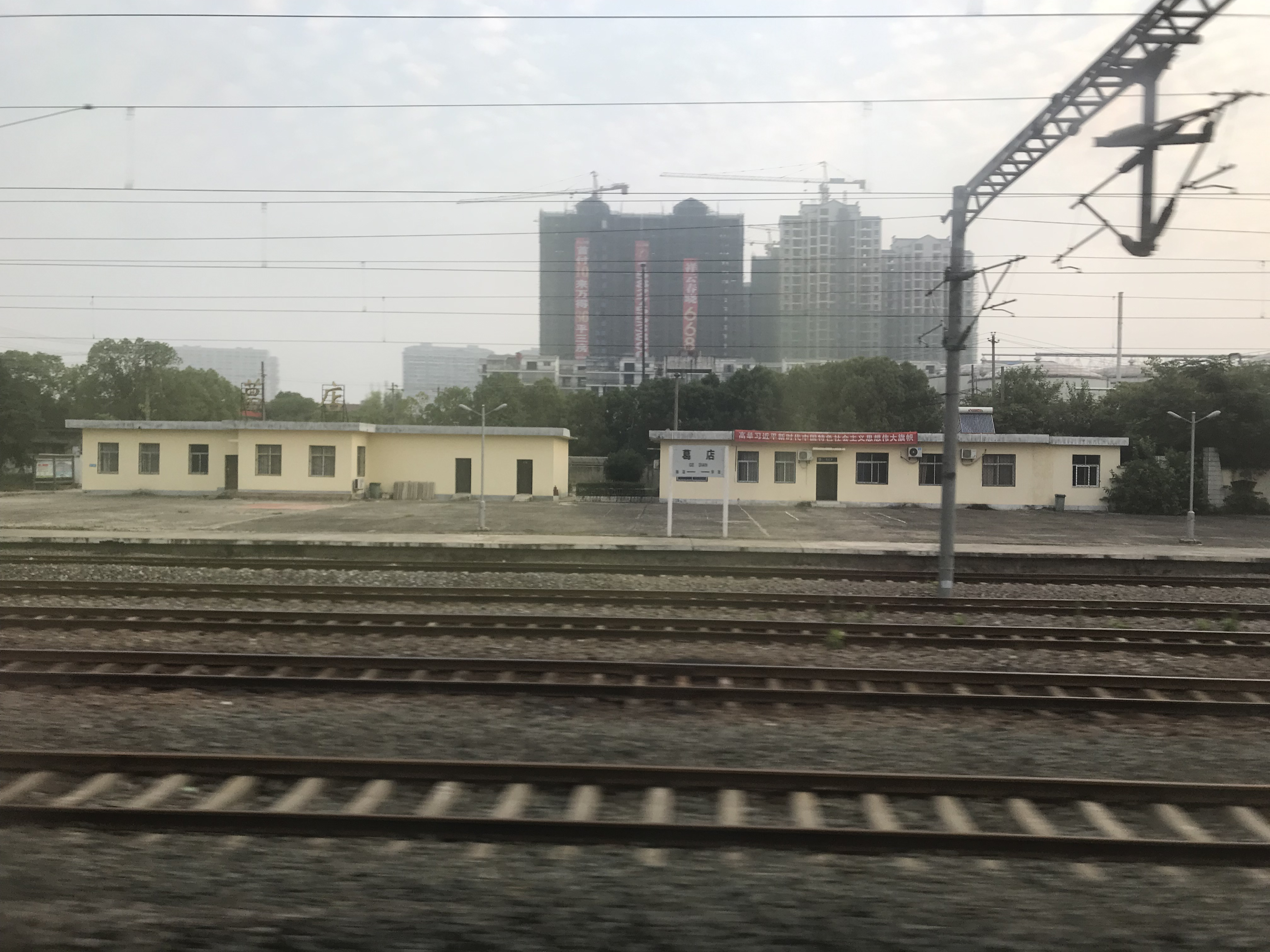 Not Gejiadian